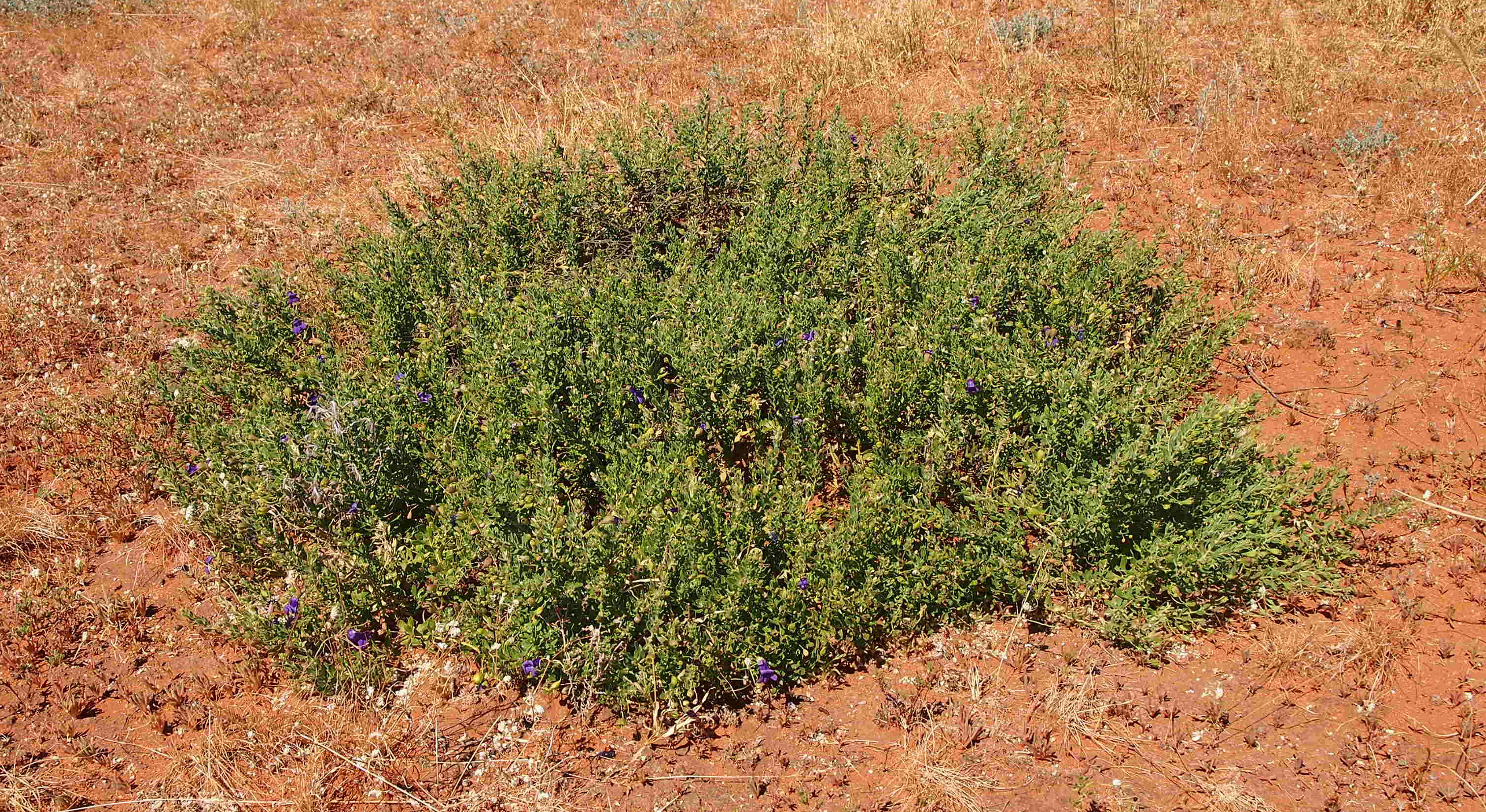 Eremophila macdonnellii habit